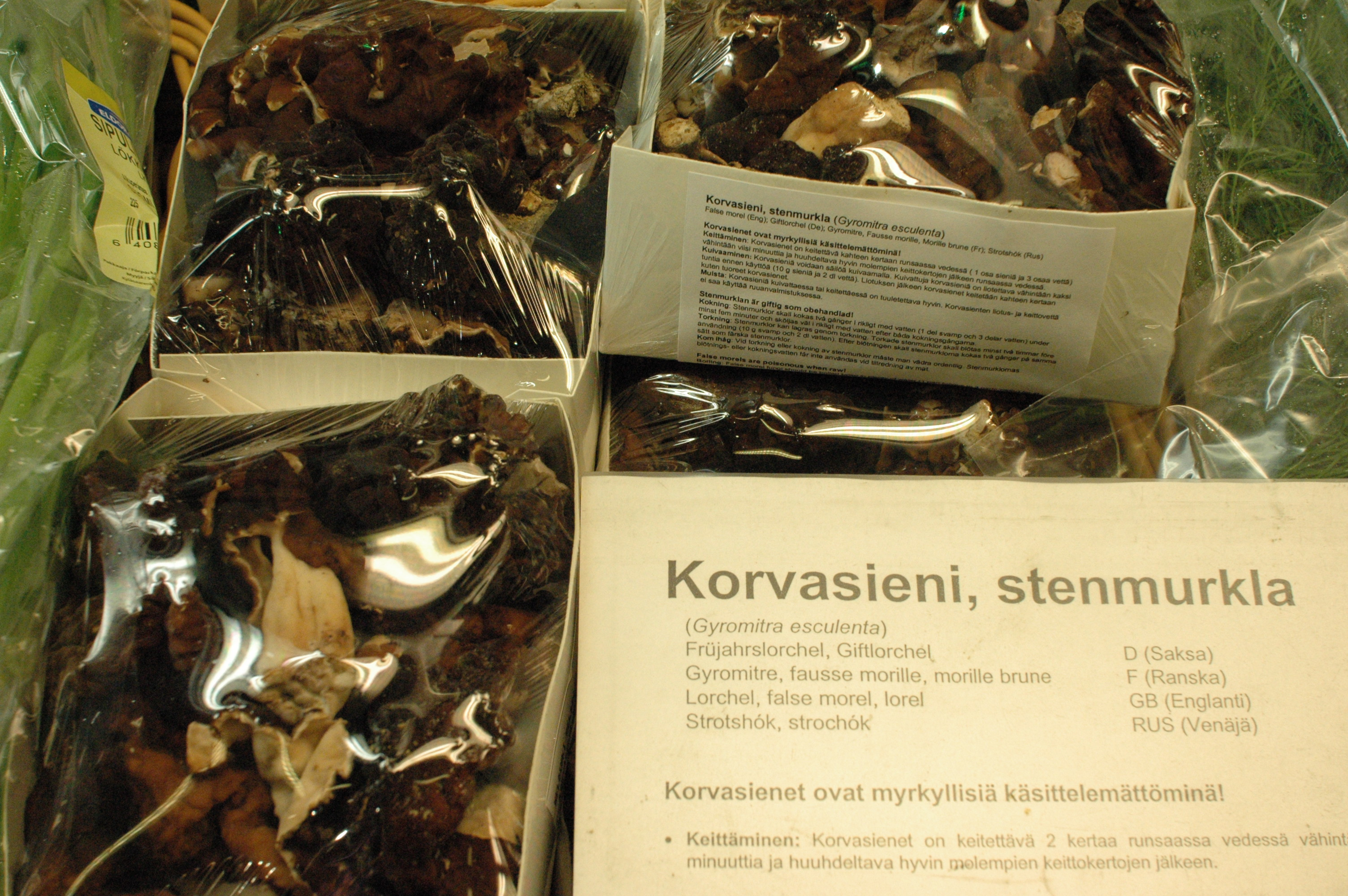 False morel fungi (Gyromitra esculenta) for sale at a department store in Helsinki. Though deadly poisonous unless properly parboiled, these mushrooms are considered a local delicacy, and Finnish law permits their sale fresh as long they are accompanied by conspicuous warnings and government-approved preparation instructions. (The mandatory warning label was originally hanging above the mushrooms; I moved it, with the permission of the staff, down to get both into the same picture.)